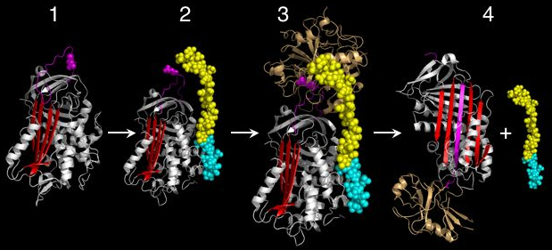 altered at3sequence.jpg Summary altered at3sequence.jpg